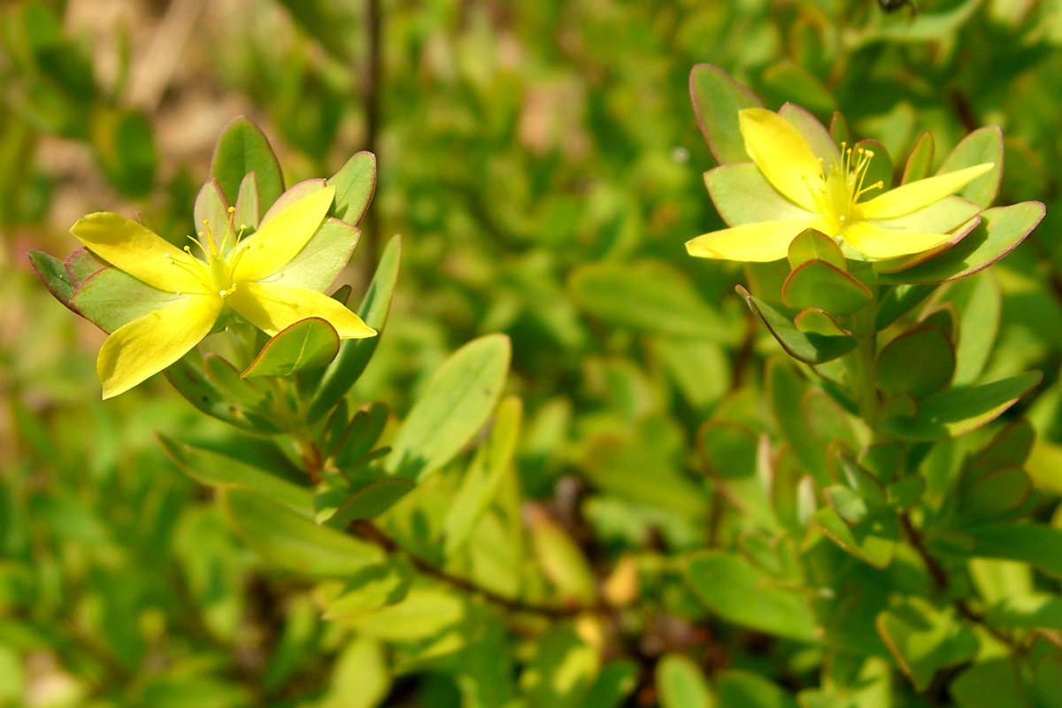 Scientific Name: Hypericum stragulum P. Adams & Robson Common Name: St Andrew's Cross Certainty: positive (notes) Location: Southern Appalachians; Smokies; CabinCove Date: 20060719